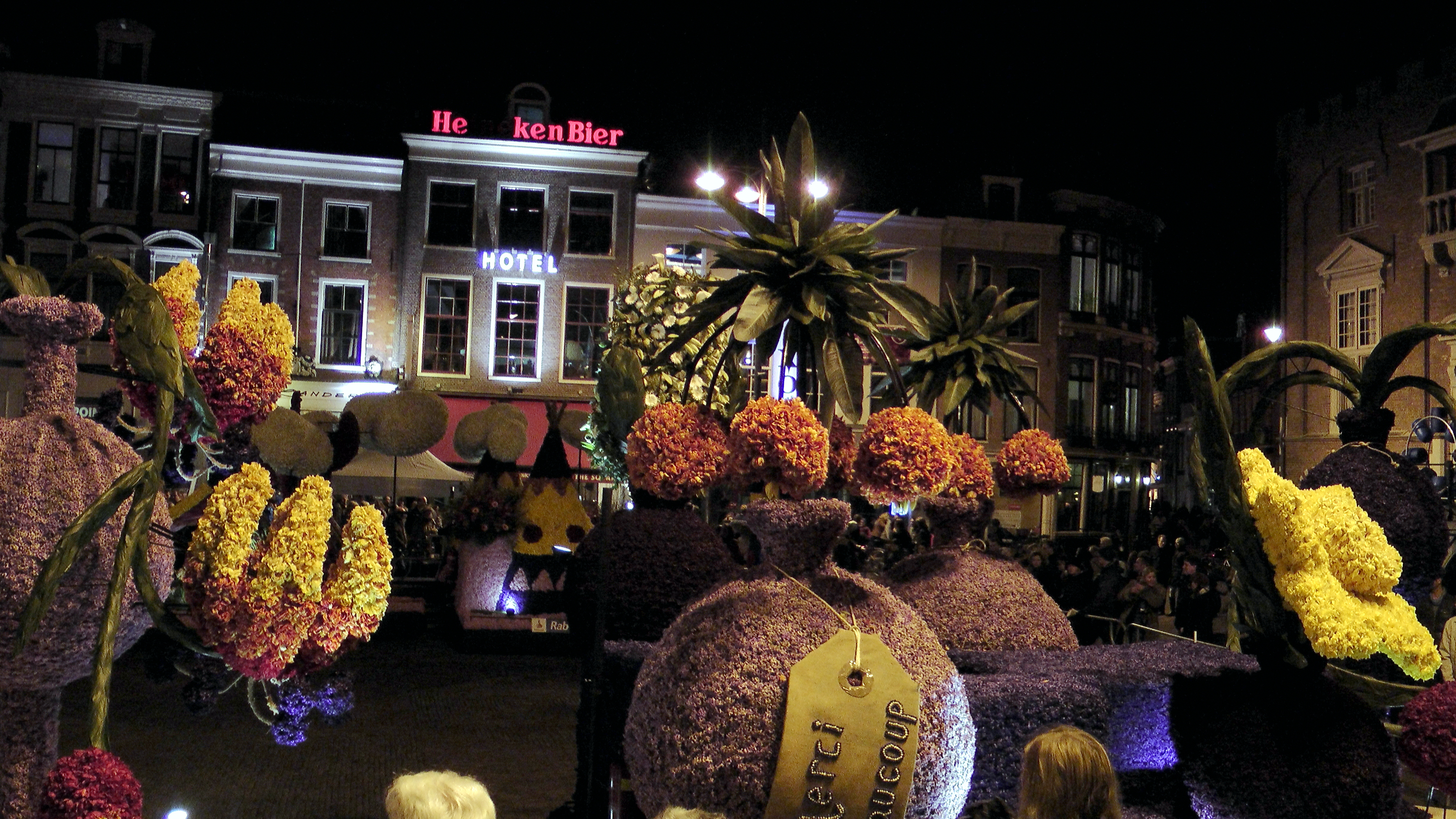 Bloemencorso (Flower Parade), Haarlem, 21st April 2012. Photo by Siavosh Maghsoudian / Persian Dutch Network